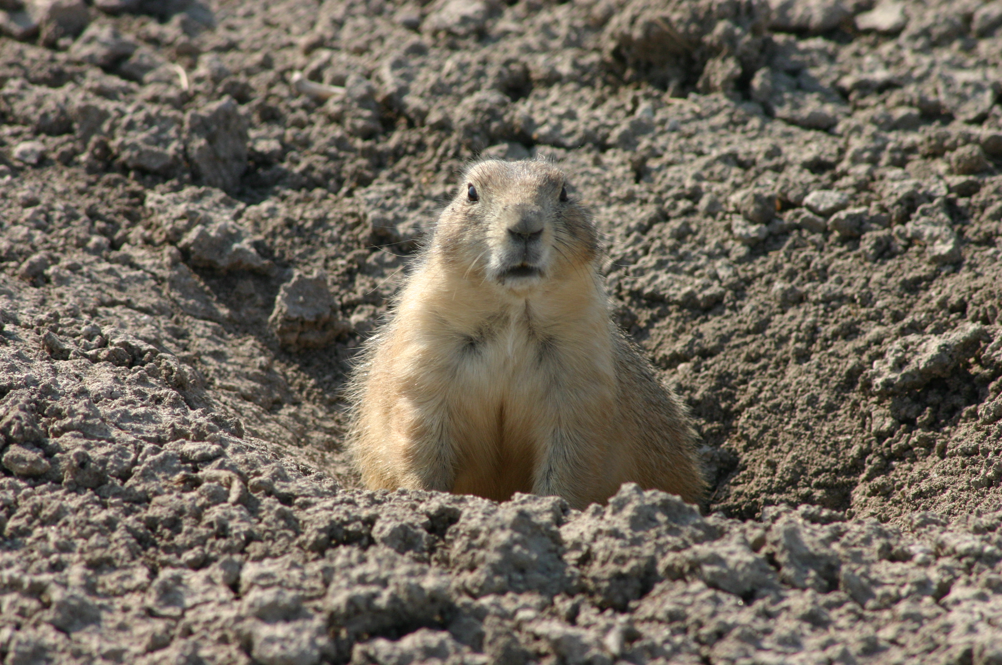 An alerted prairie dog sitting at the entrance of its hole, looking straight at the camera. (Cynomys ludovicianus)